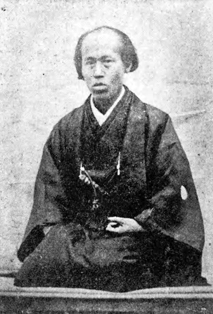 Koyama Ryōun